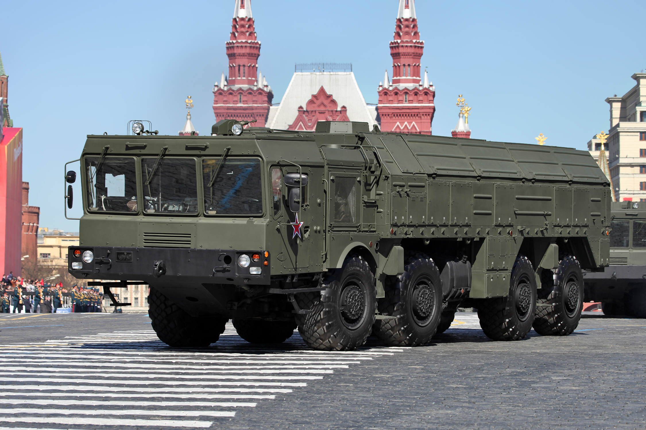 9P78-1 TEL for Iskander-M system